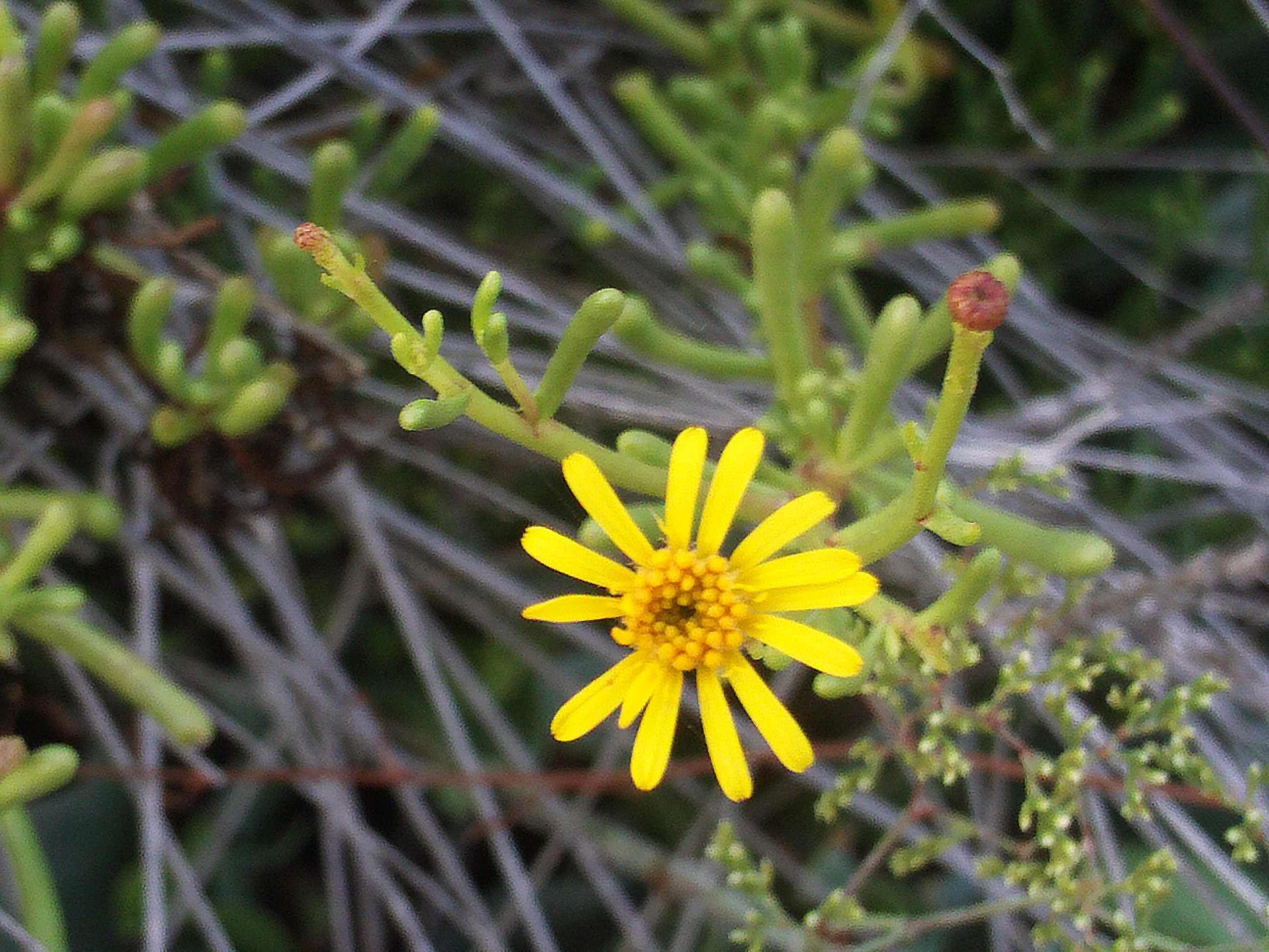 Limbarda crithmoides Parque Natural de las Lagunas de La Mata y Torrevieja Spain